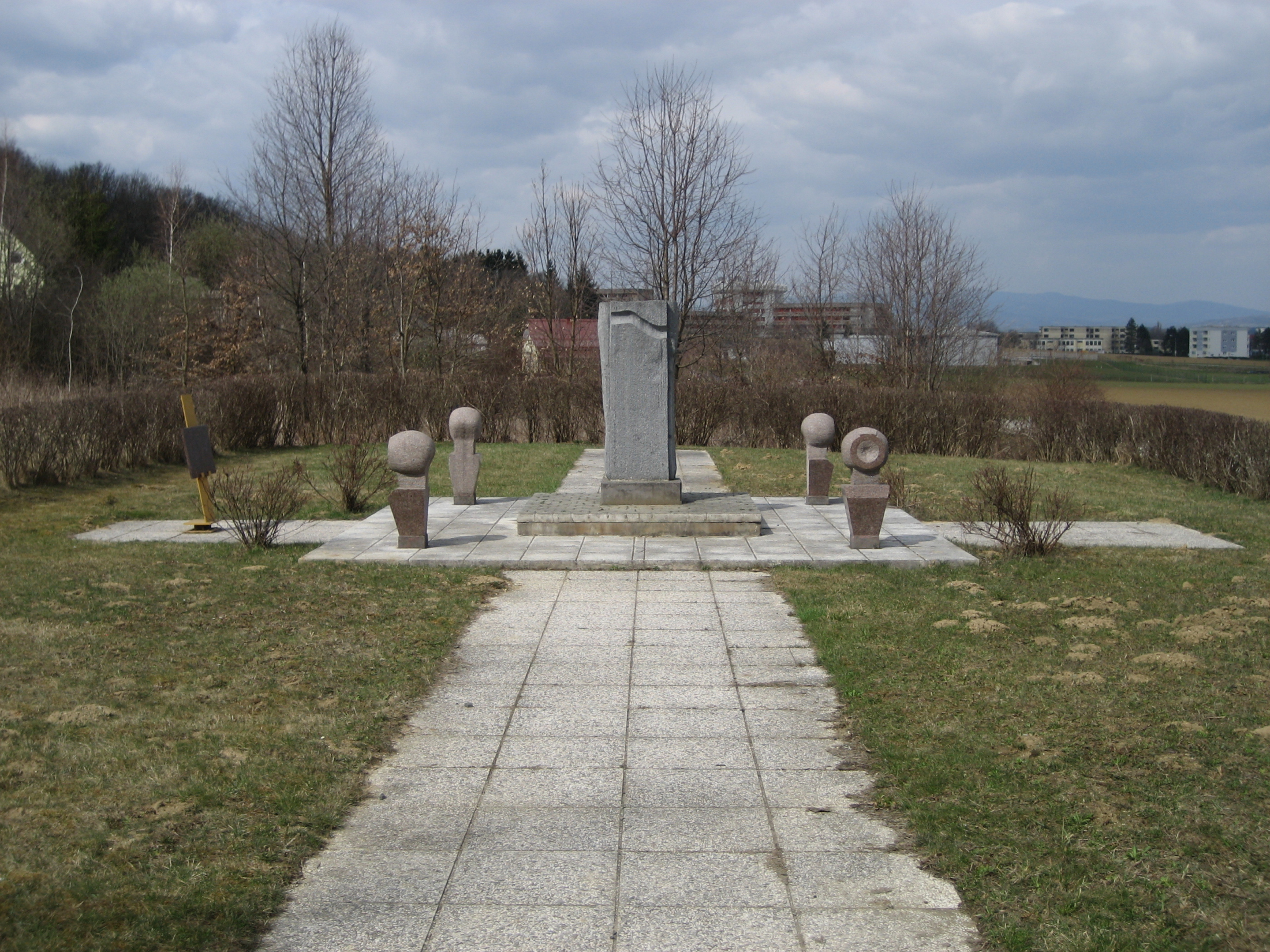 Memorial for Roma and Sinti in Oberwart, Austria.